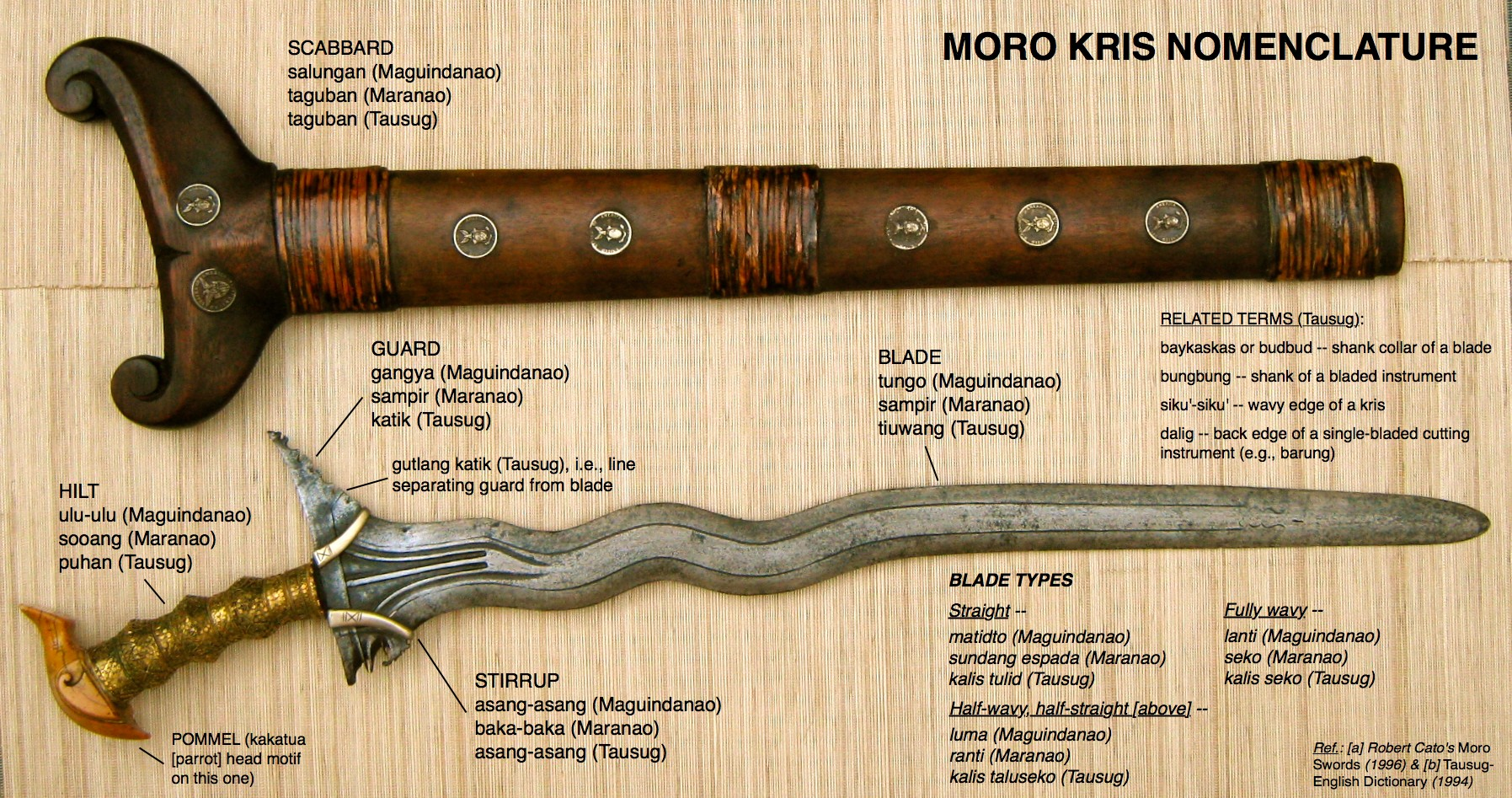 Components of the Moro kris (kalis), given in three languages: Tausūg, Maguindanao, & Meranao). Sources: Robert Cato's Moro Swords (1996) and Irene Hassan, et al.'s Tausug-English Dictionary (1994, Summer Institute of Linguistics). Other uploaded materials by the same author are here: (a) Luzon weapons; (b) Visayan weapons; (c) Moro weapons; and (d) Lumad (non-Moro Mindanao) weapons